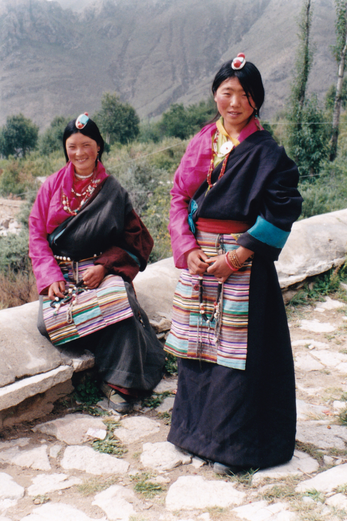 Ladies in nomad costume near Drepung Monastery, Tibet These colorful dresses and aprons are a traditional costume of herders in Tibet.